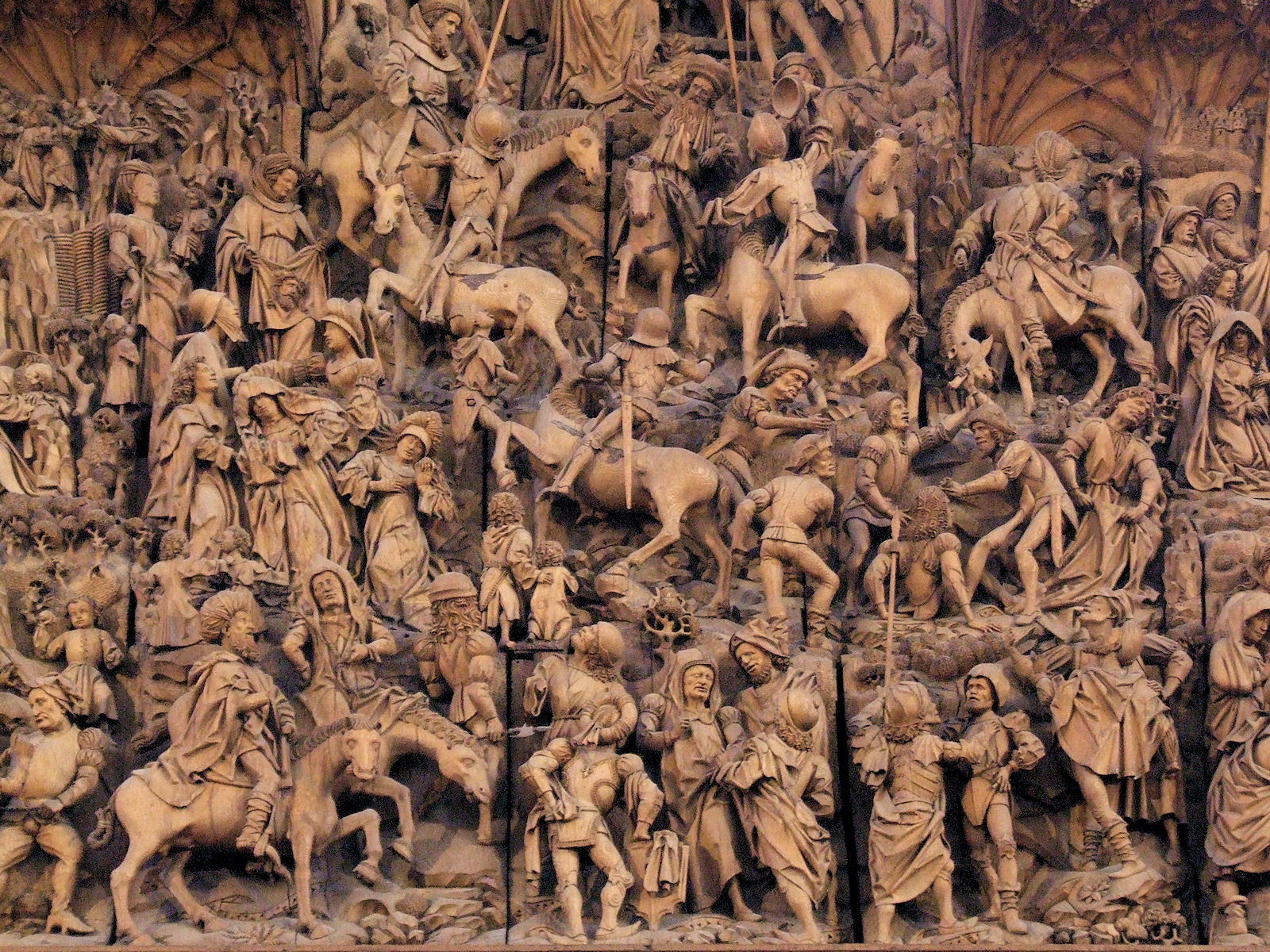 Hochaltar. Sankt Nicolai, Kalkar, Nordrhein-Westfalen High altar - Altars of the Crucifixion of Christ - Detail. Church of Saint Nicholas, Kalkar, in North Rhine-Westphalia, Germany